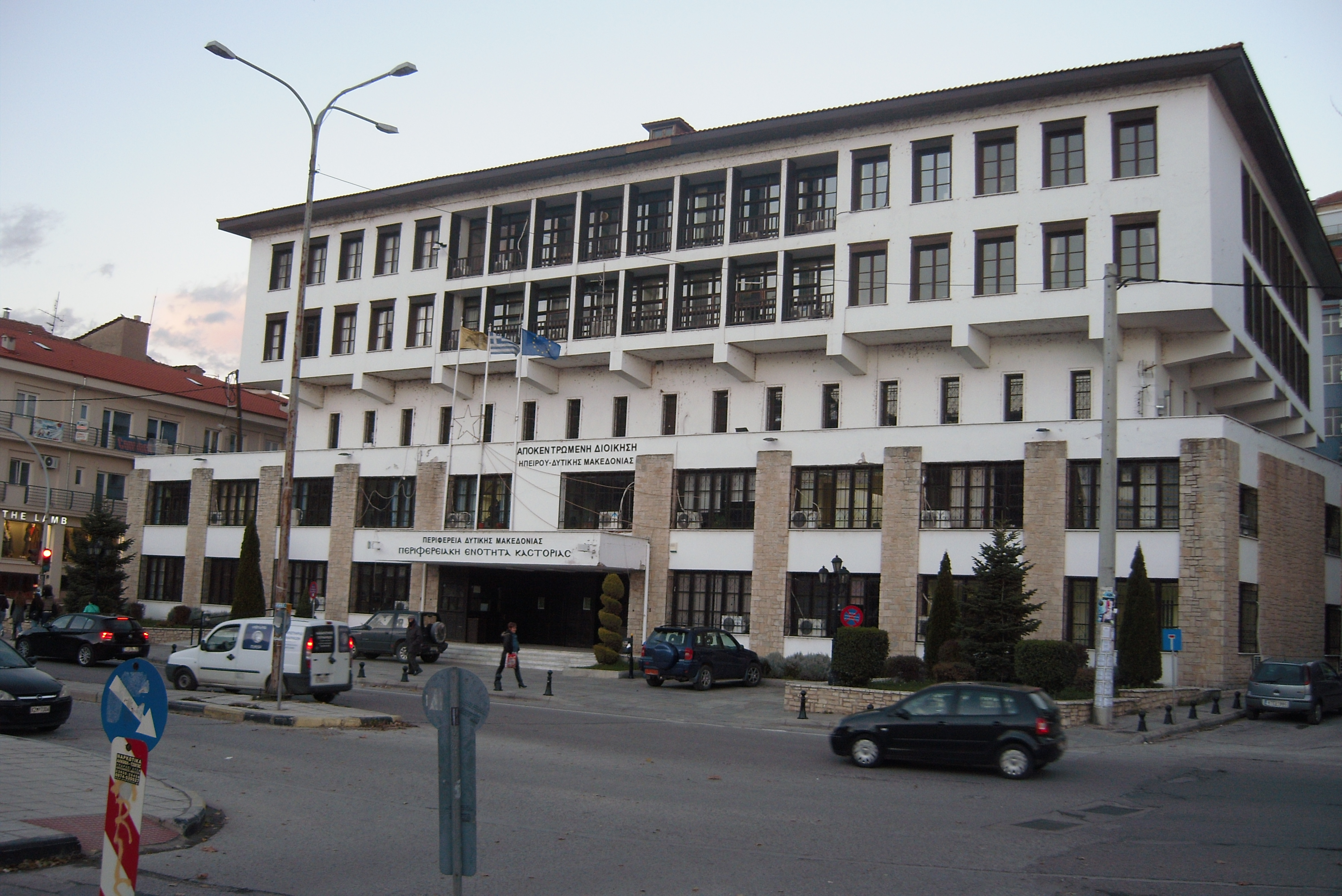 Kastoria Regional Unit Building 2013